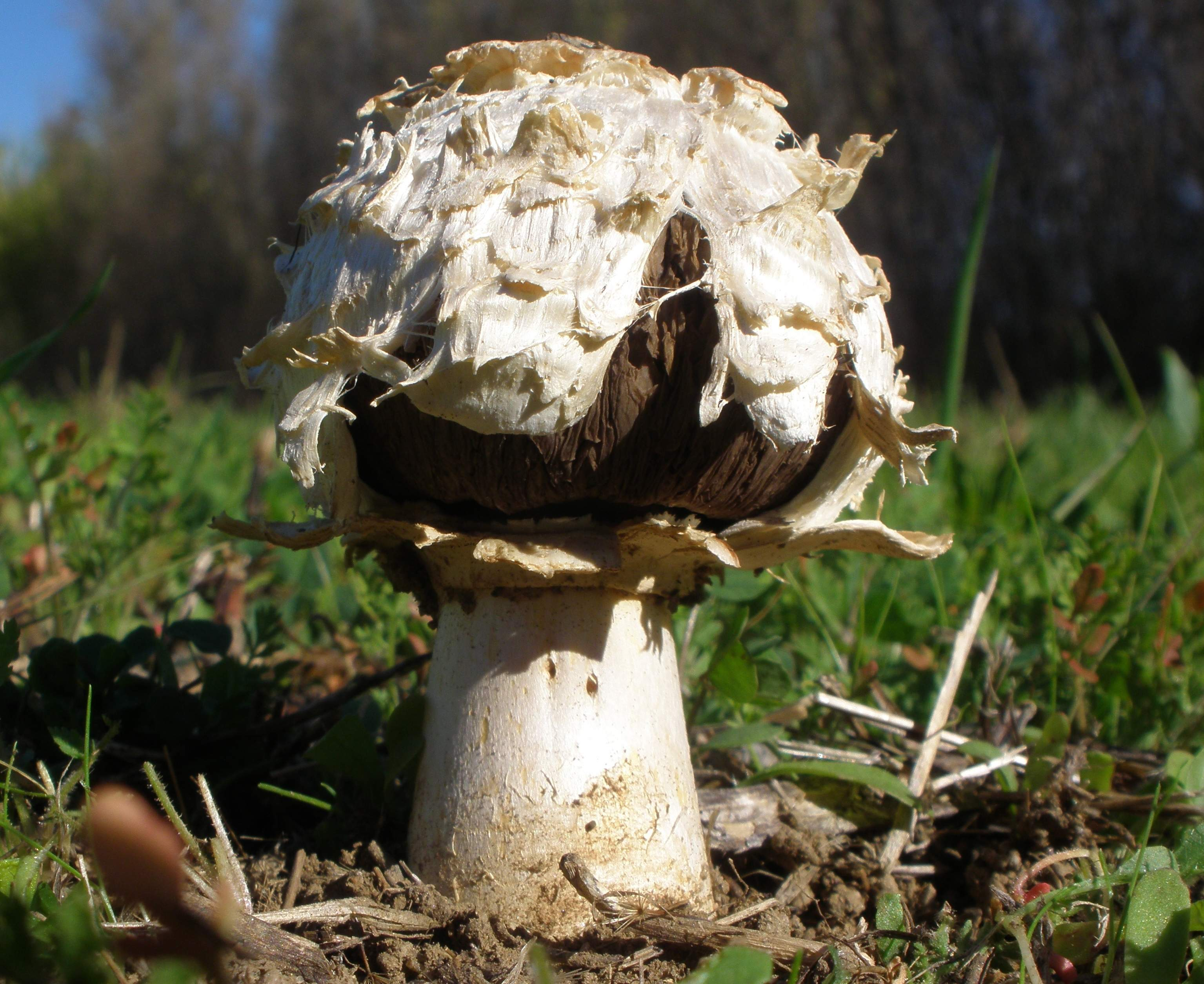 The secotioid mushroom Agaricus texensis (Berk. & M.A. Curtis) Geml, Geiser & Royse. Photographed in Yuba City, CA.